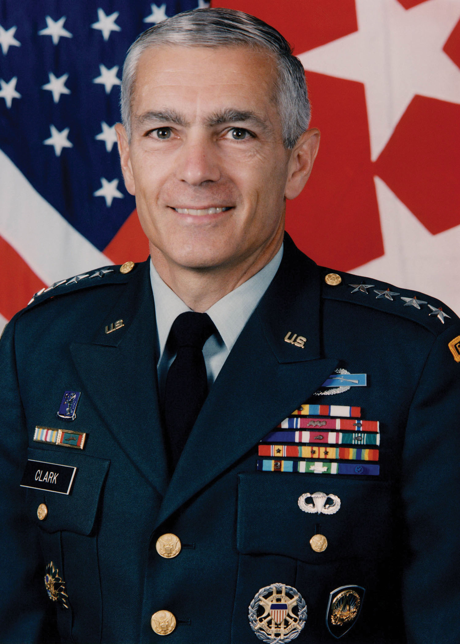 Military photo portrait of Wesley Clark, former U.S. general and presidential candidate.